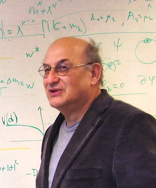 Mikhail Shifman at FTPI in 2012